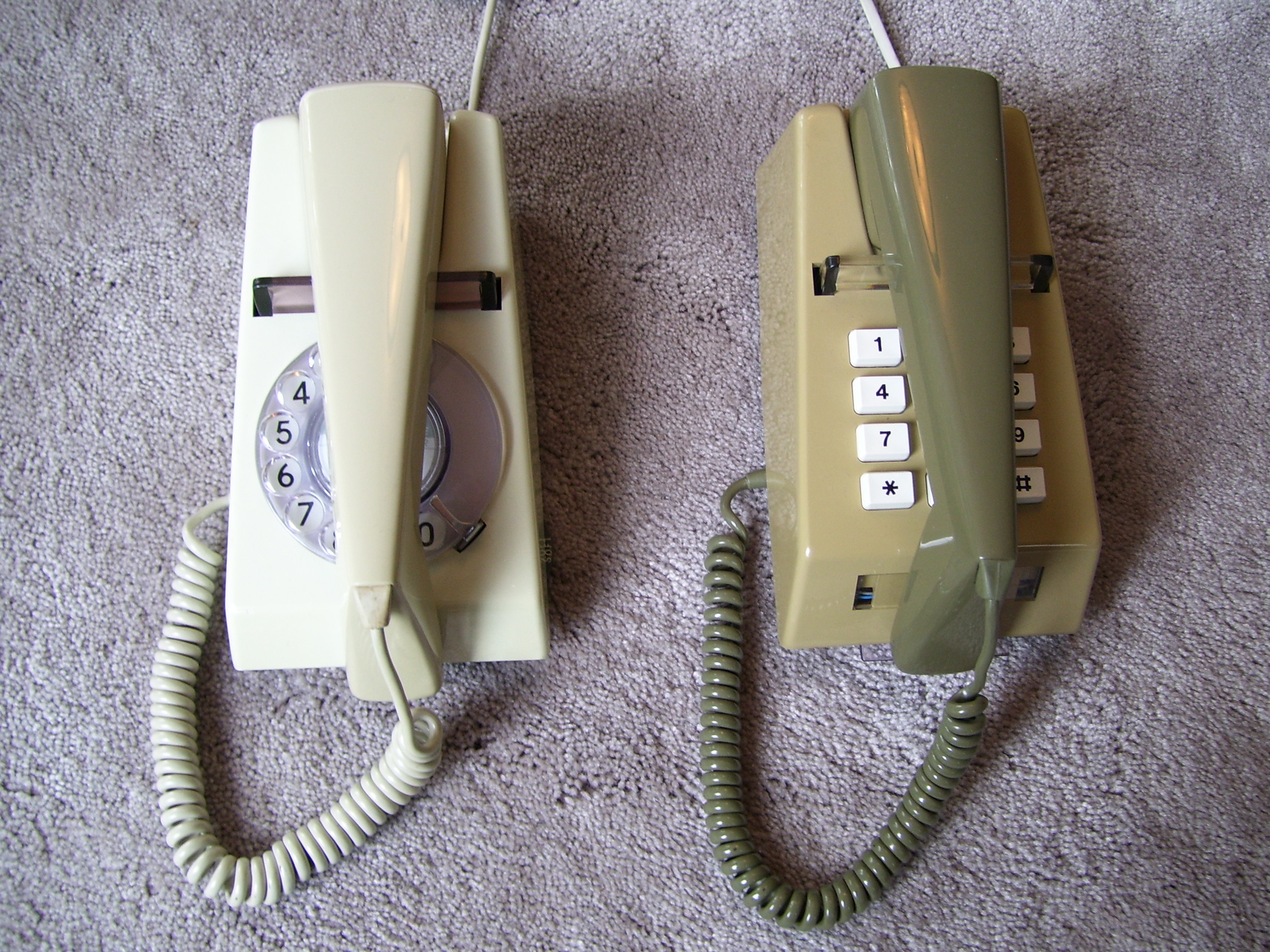 Two styles of Trimphone -- dial and (later) keypad. Taken by ProhibitOnions of items in own collection, 2007.